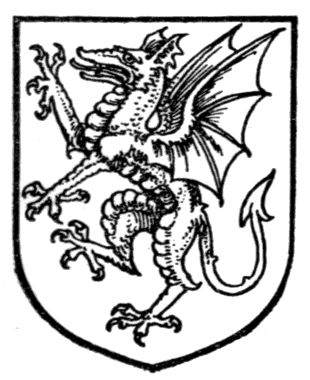 Fig. 424.—Dragon rampant.